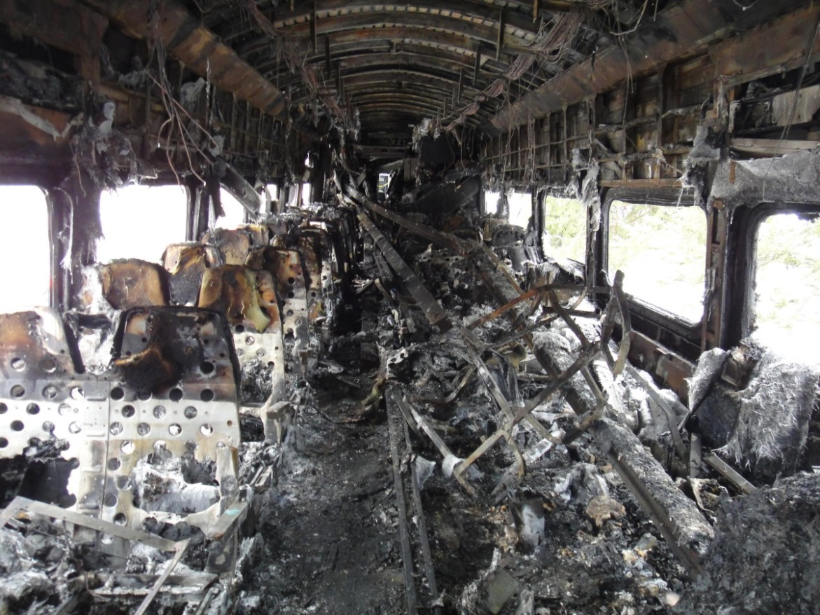 Interior of the lead car in the 2015 Valhalla train crash, some time after accident, showing fire damage and third rail sections dislodged into car during accident.